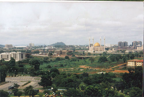 Summary[edit] Abuja, the Capital of Nigeria from the Nicon Noga Hotel. I took this photo.